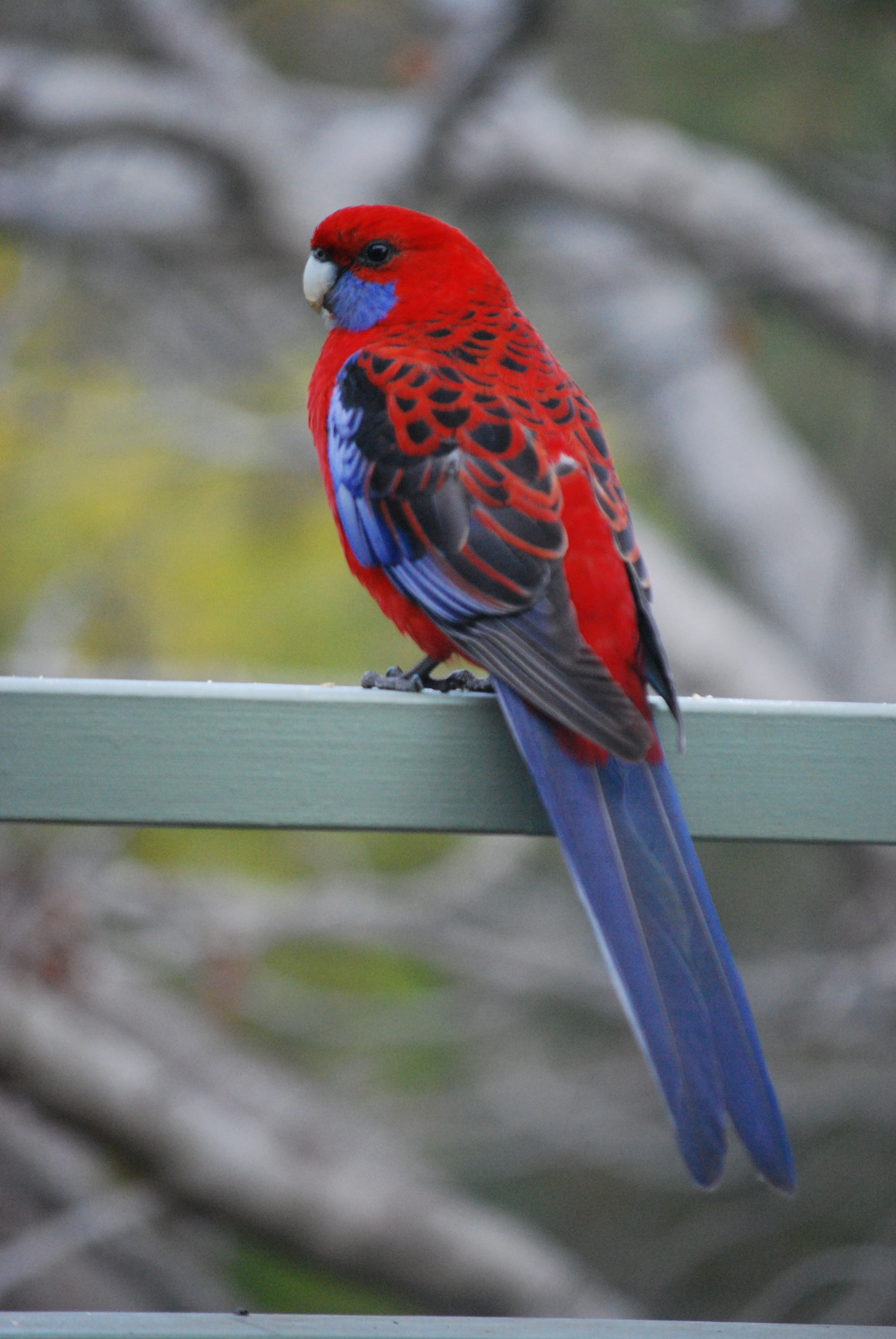 A Crimson Rosella photographed though a window in the Blue Mountains, Australia.